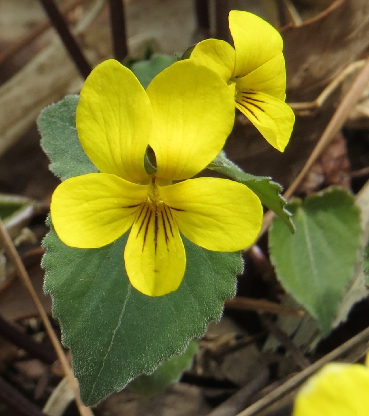 Viola orientalis in Yumihari Mountains, Japan.